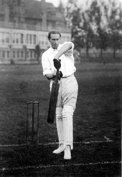 American cricketer John Barton "Bart" King. This picture was taken around 1900 in Philadelphia.